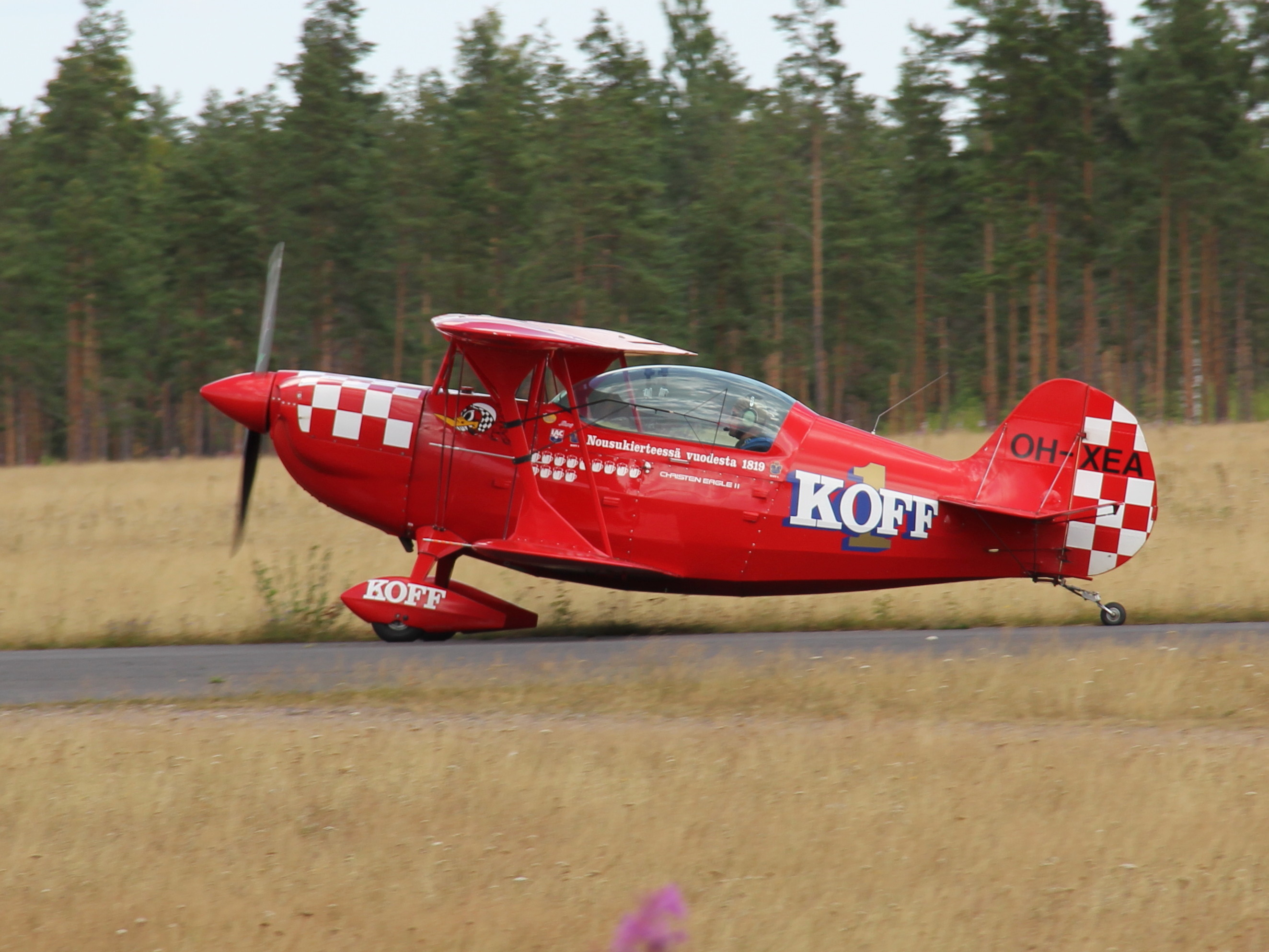 Christen Eagle II, an aerobatic sporting biplane, registration OH-XEA, in Oripää Airshow 2013 at Oripää Airfield, Finland.Pilot: Miikka Rautakoura. Just landed.